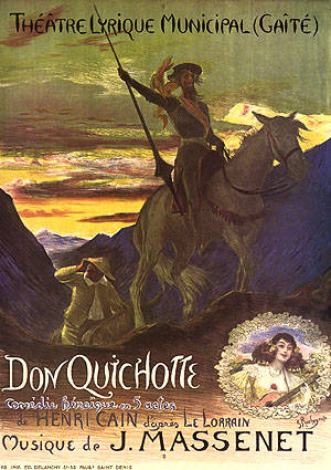 Georges_Rochegrosse's_poster_for_Jules_Massenet's_Don_Quichotte